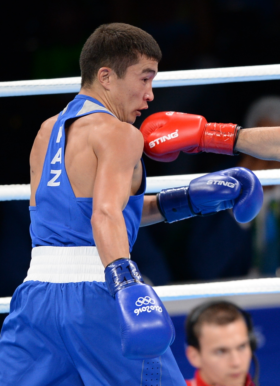 Boxing at the 2016 Summer Olympics, Chalabiyev vs Yeraliyev